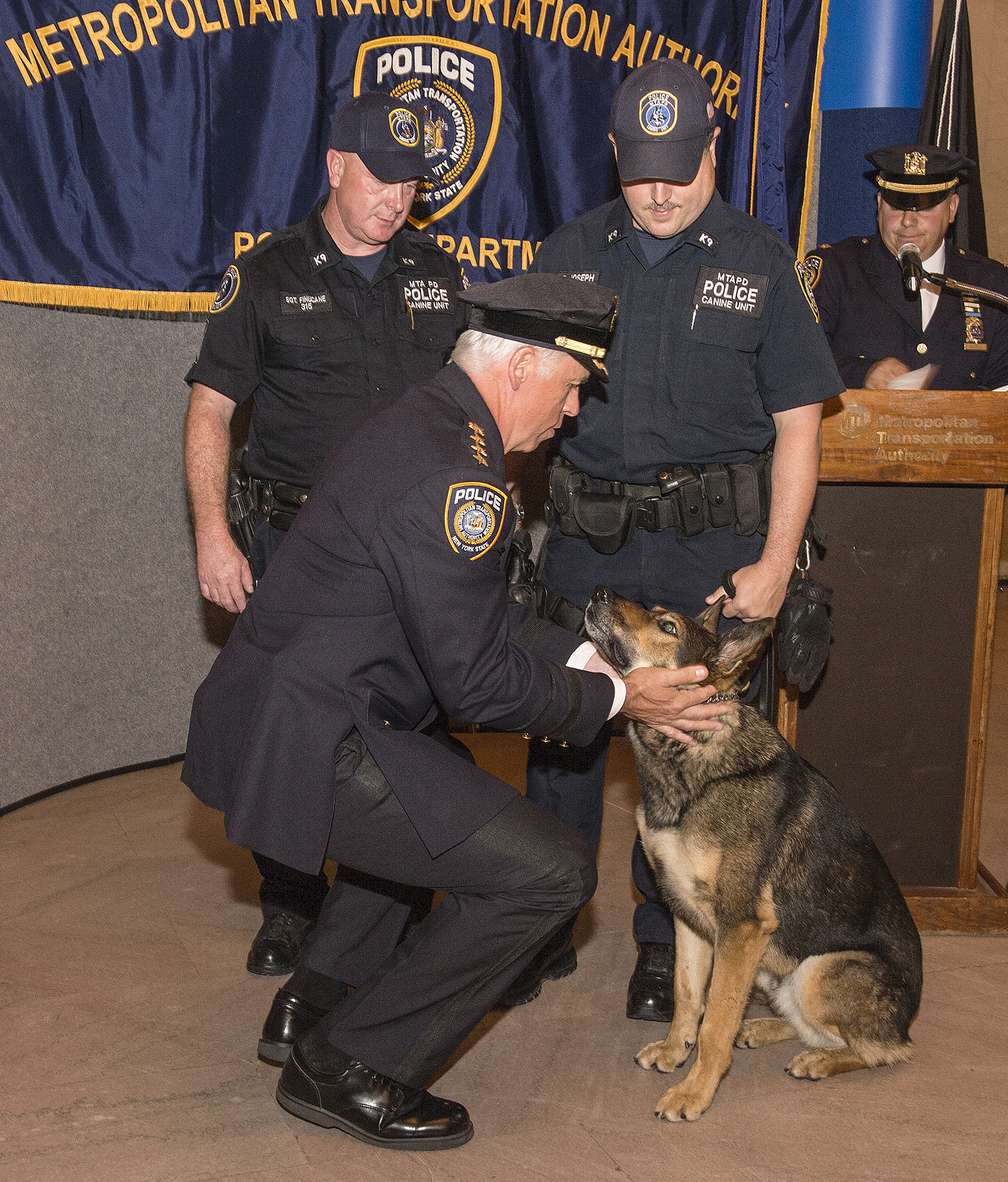 MTA PD 2014 Canine Unit Graduation